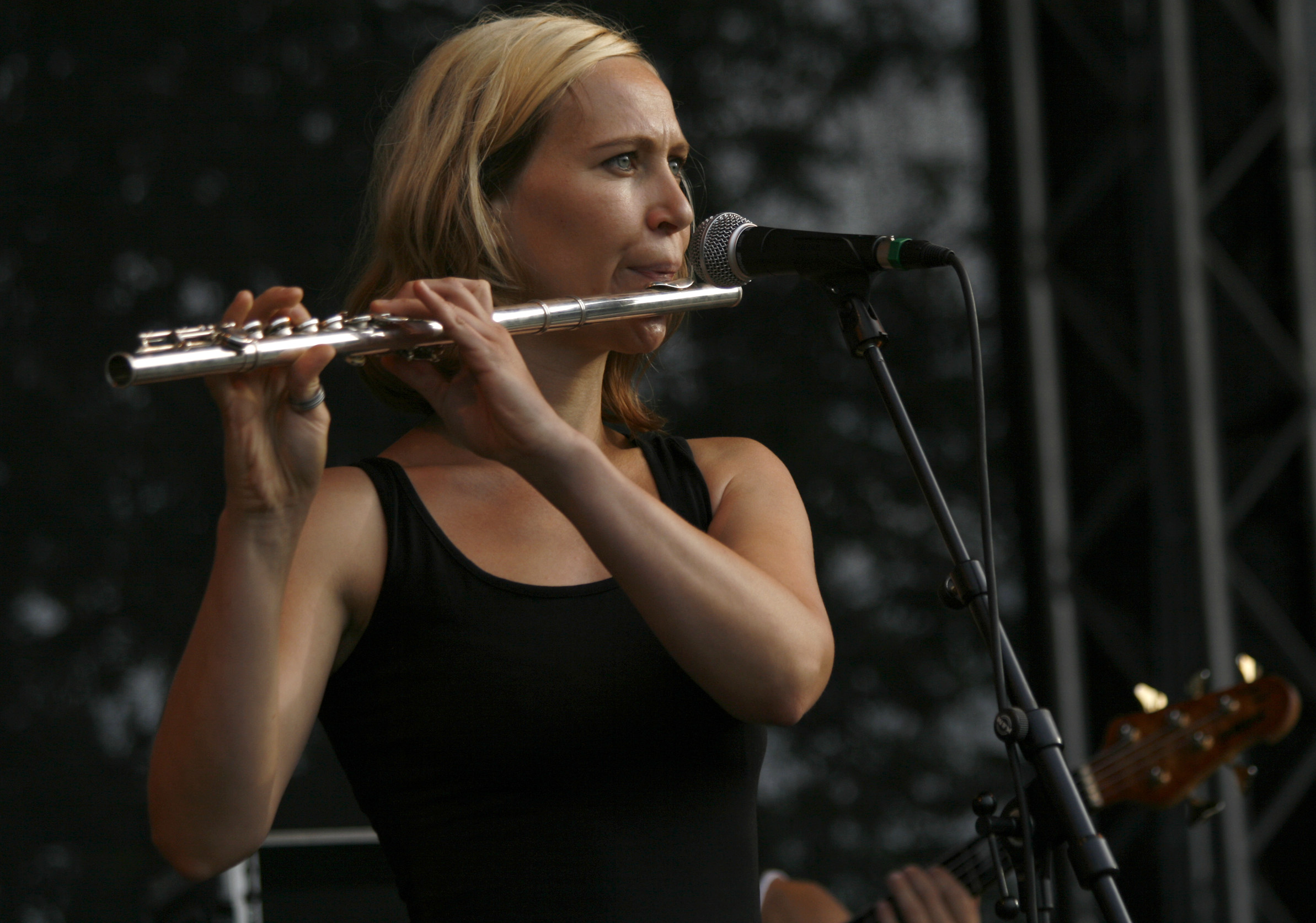 SiE - Austrian musician Sibylle Kefer with band at the Donauinselfest 2008